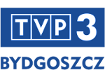 unknown logo